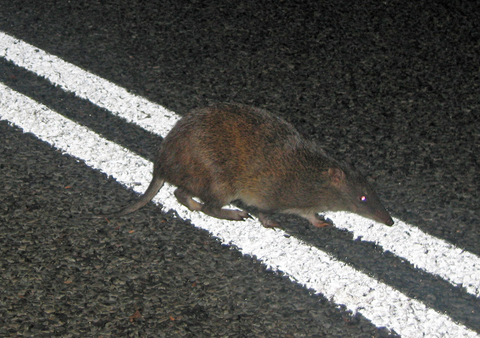 A southern brown bandicoot on a West Australian road